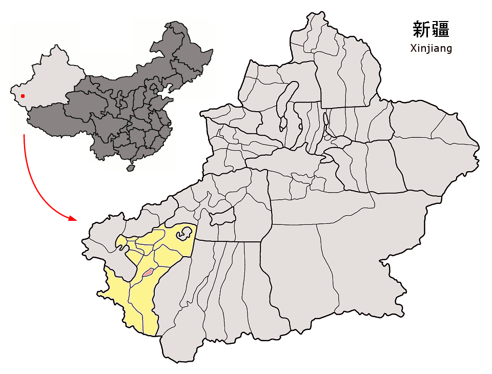 Location of Poskam County (pink) and Kashgar Prefecture (yellow) within Xinjiang autonomous region of China Map drawn in september 2007 using various sources, mainly : Xinjiang Uygur autonomous region administrative regions GIS data: 1:1M, County level, 1990 Xinjiang Counties map from